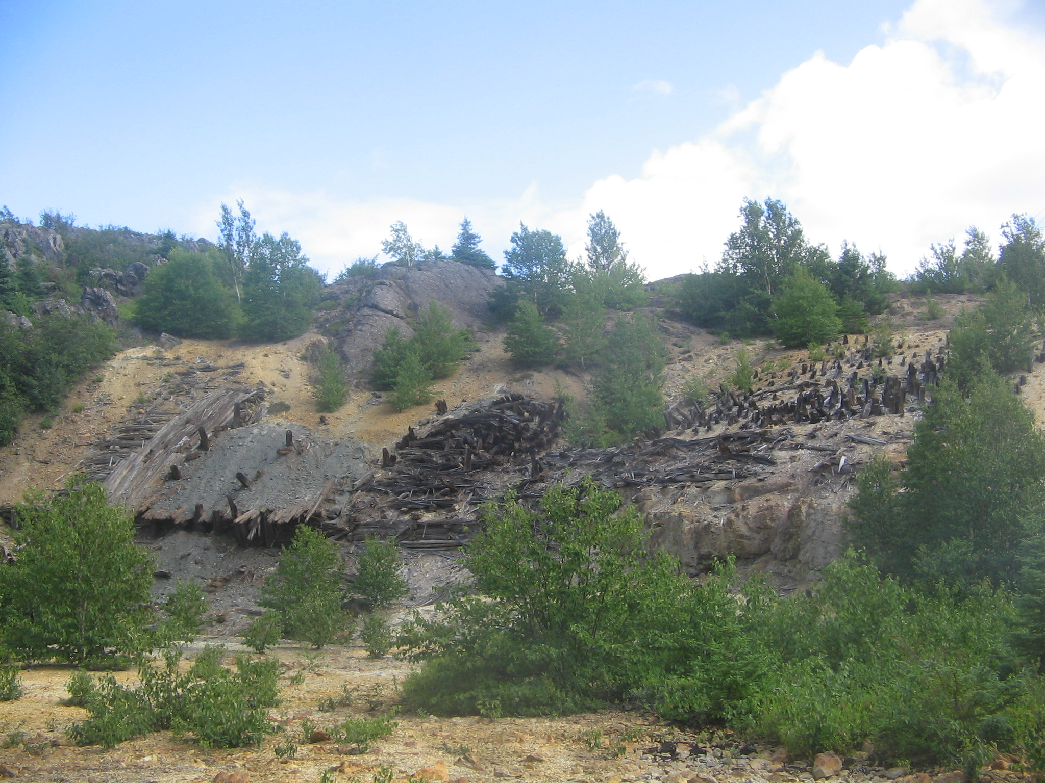 A view of the a collapsed mine shaft at Pilley's Island mine in summer 2012. Note the sulfur stained rocks.